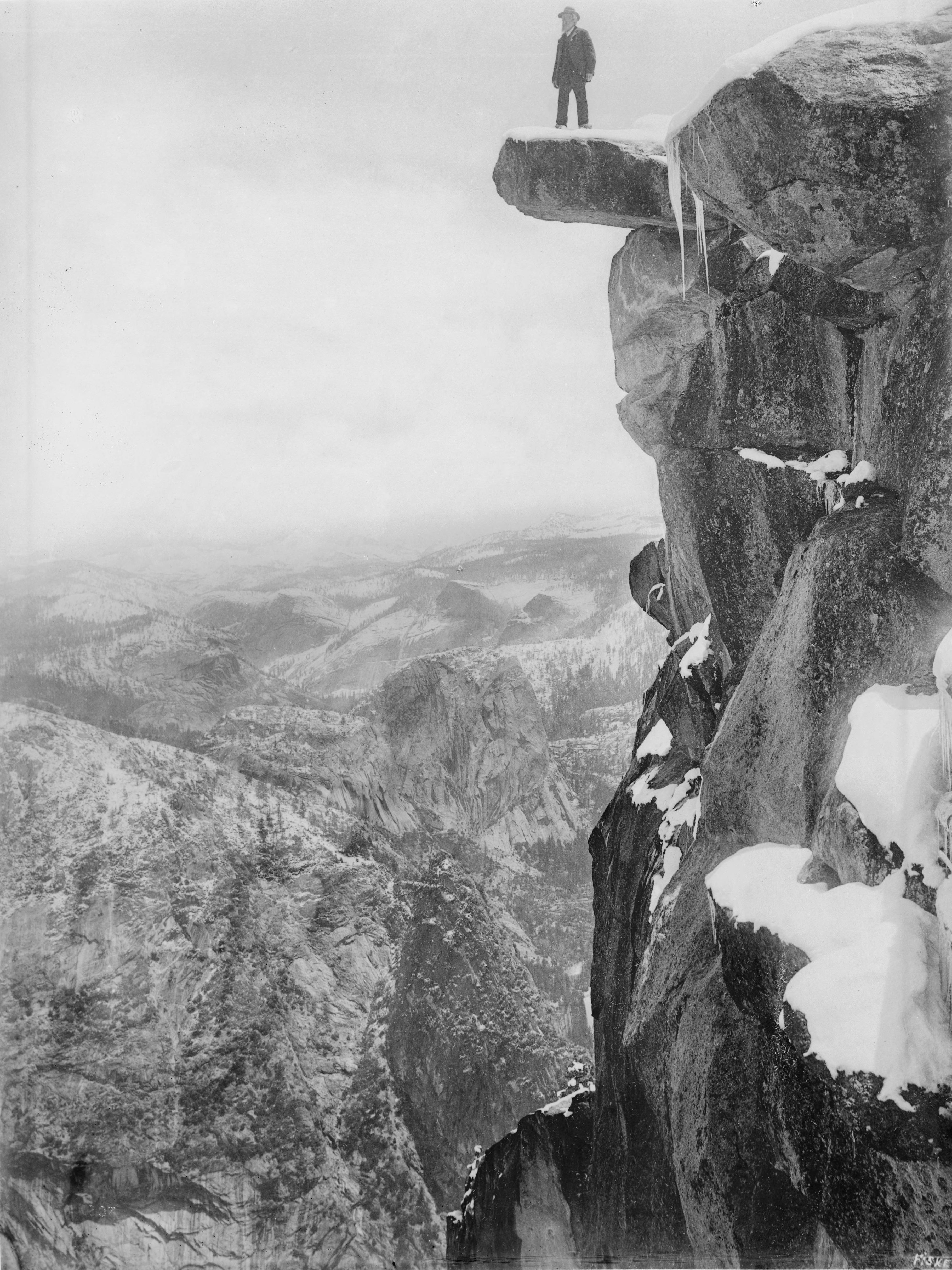 Galen Clark on Glacier Point in Yosemite National Park, ca.1900 Photograph of Galen Clark, Yosemite pioneer and discoverer of Mariposa Grove, standing on Glacier Point in Yosemite National Park. Ice and snow cling to the precarious rock formation. Photographer: Fiske, George Filename: CHS-1207 Coverage date: circa 1900 Part of collection: California Historical Society Collection, 1860-1960 Format: glass plate negatives Type: images Part of subcollection: Title Insurance and Trust, and C.C. Pierce Photography Collection, 1860-1960 Repository name: USC Libraries Special Collections Accession number: 1207 Microfiche number: 1-60-54; 1-60-55 Archival file: chs_Volume94/CHS-1207.tiff Rights: Digitally reproduced by the USC Digital Library; From the California Historical Society Collection at the University of Southern California Repository address: Doheny Memorial Library, Los Angeles, CA 90089-0189 Geographic subject (country): USA Subject (naf): Clark, Galen, 1814-1910 Publisher (of the digital version): University of Southern California. Libraries Subject (adlf): parks Project: USC Repository Contributing entity: California Historical Society Date created: circa 1900 Call number: CHS-1207 Format (aat): photographic prints; photographs Geographic subject (state): California Legacy record ID: chs-m10656; USC-0-1-1-10805 Access conditions: Send requests to address or e-mail given. Phone (213) 821-2366; fax (213) 740-2343. Subject (file heading): Photographers -- Fiske, George Format (aacr2): 2 photographs : glass photonegative, photoprint, b&w ; 22 x 17 cm. Subject (lcsh): Yosemite national park (Calif.); Glacier Point (Calif.); National parks and reserves; Mountains